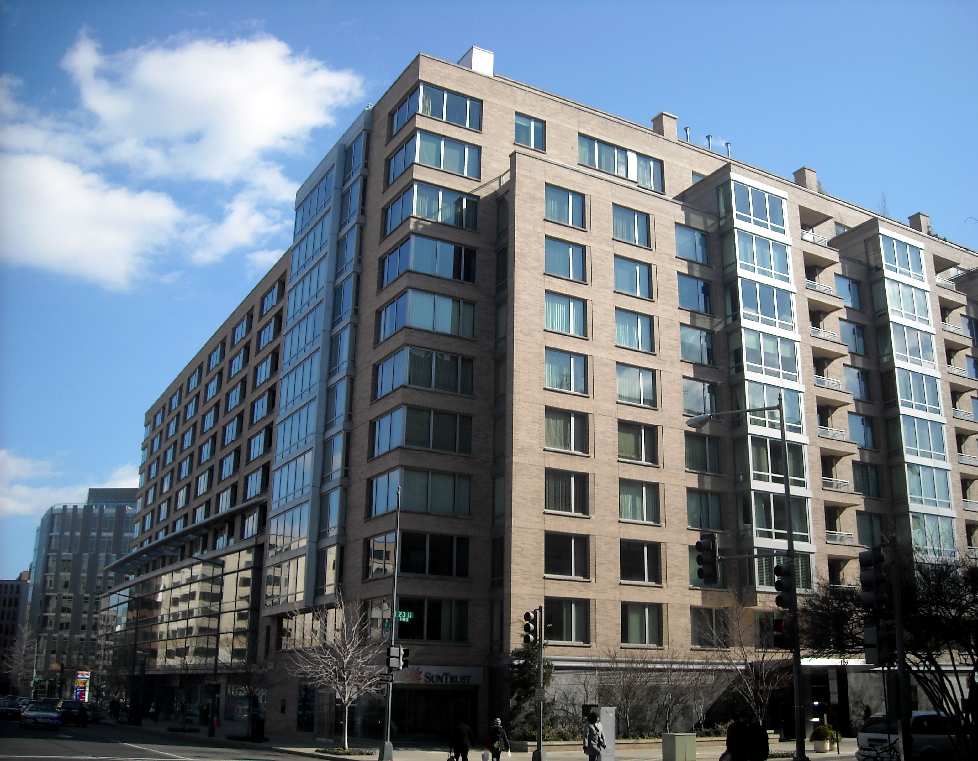 The Ritz-Carlton located at 1150 22nd Street, NW in the West End neighborhood of Washington, D.C. This view is of the hotel's west side (Ritz-Carlton Residences) at the intersection of 23rd and M Streets, NW.